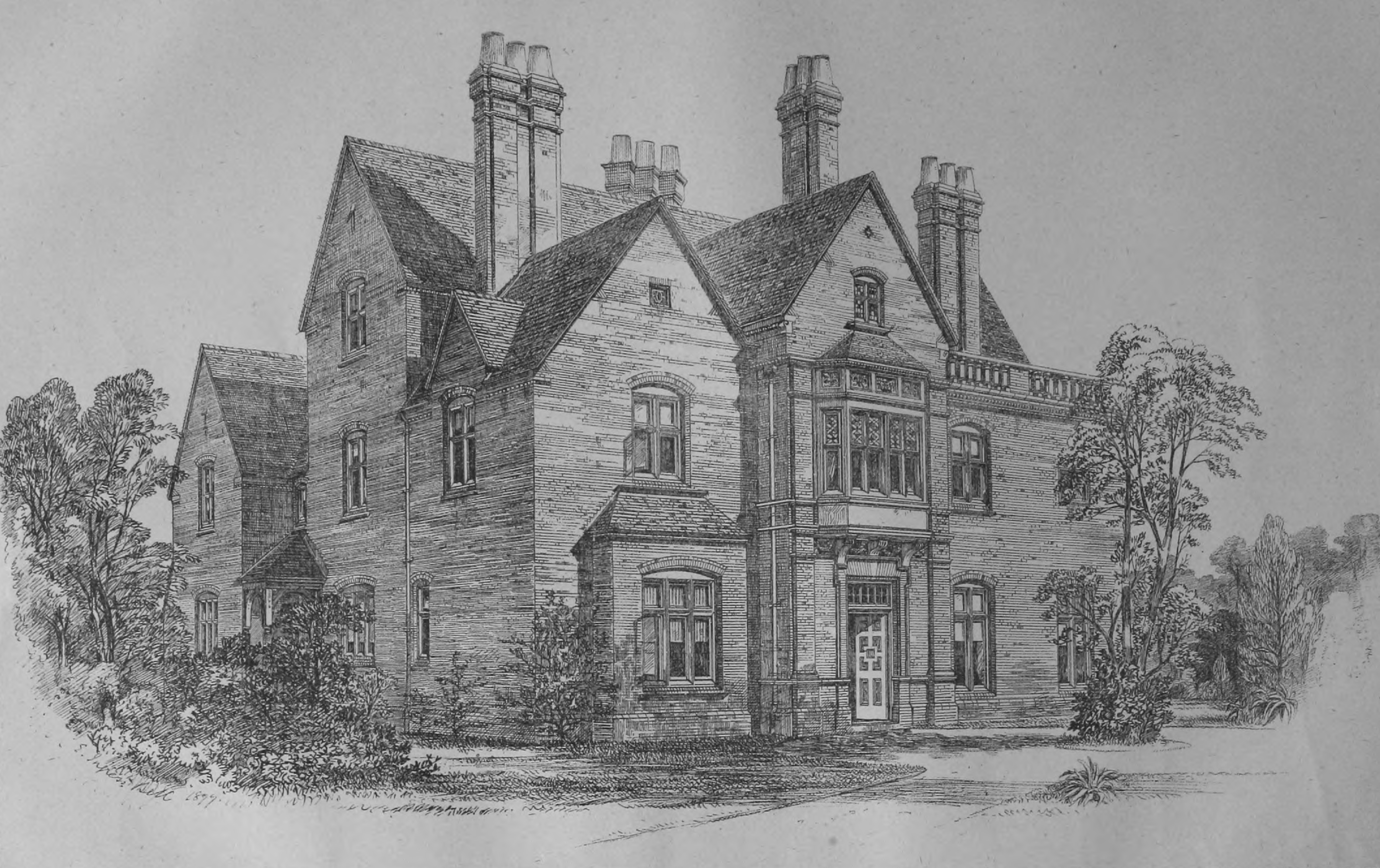 Illustration of Hinxton House, East Sheen after it was built in 1877